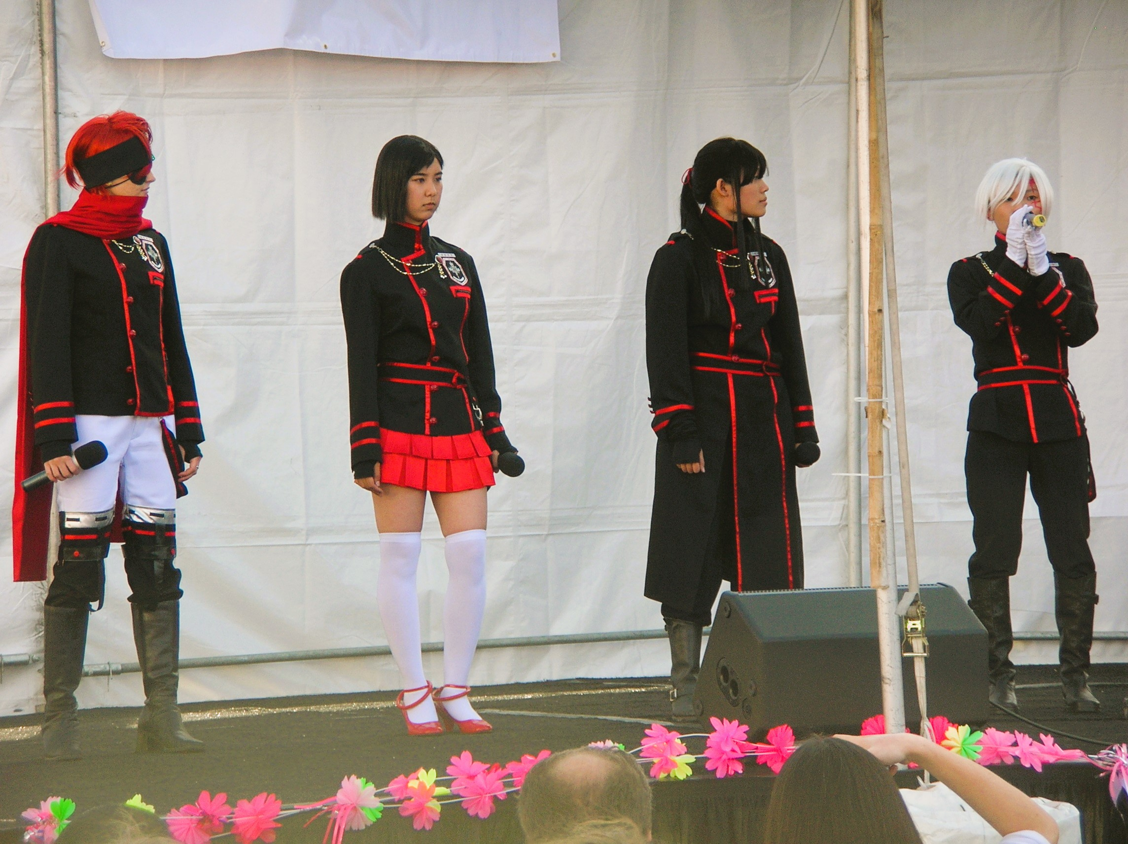 Cosplayers portraying Lavi, Lenalee Lee, Yu Kanda, and Allen Walker from D.Gray-man performing during the talent show at the Northern California Cherry Blossom Festival in San Francisco, California.